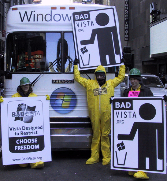 BadVista and DefectiveByDesign with the Windows Vista tour bus